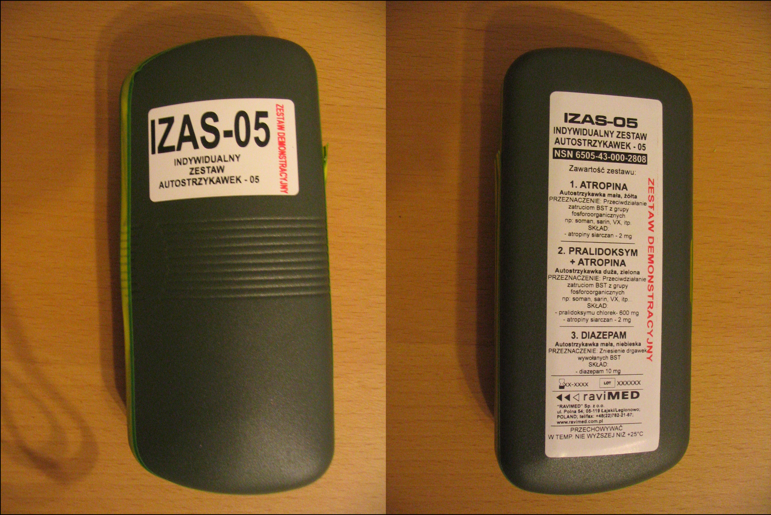 autoinjectors individual kit wzor 05, demo version